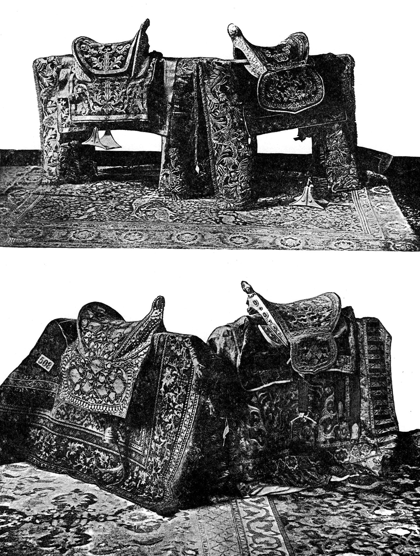 historical Polish horse tacks